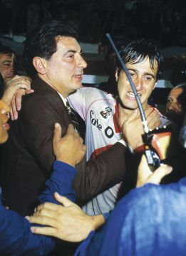 Hugo Santilli and Norberto Alonso when River Plate won the Copa Libertadores.